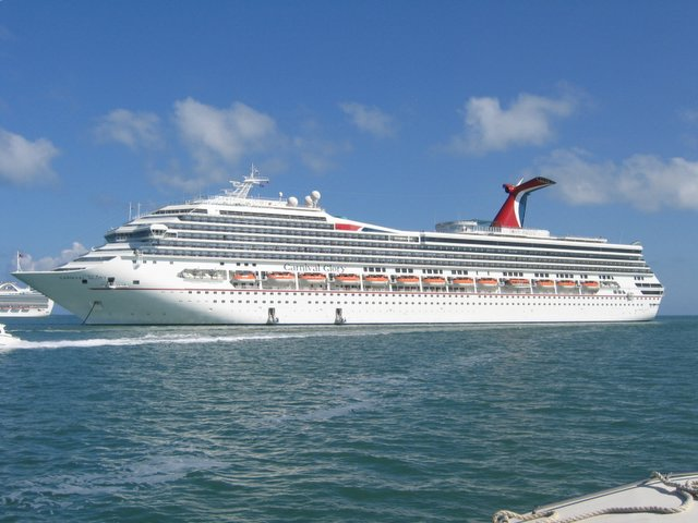 Carnival Glory docked in Belize City.